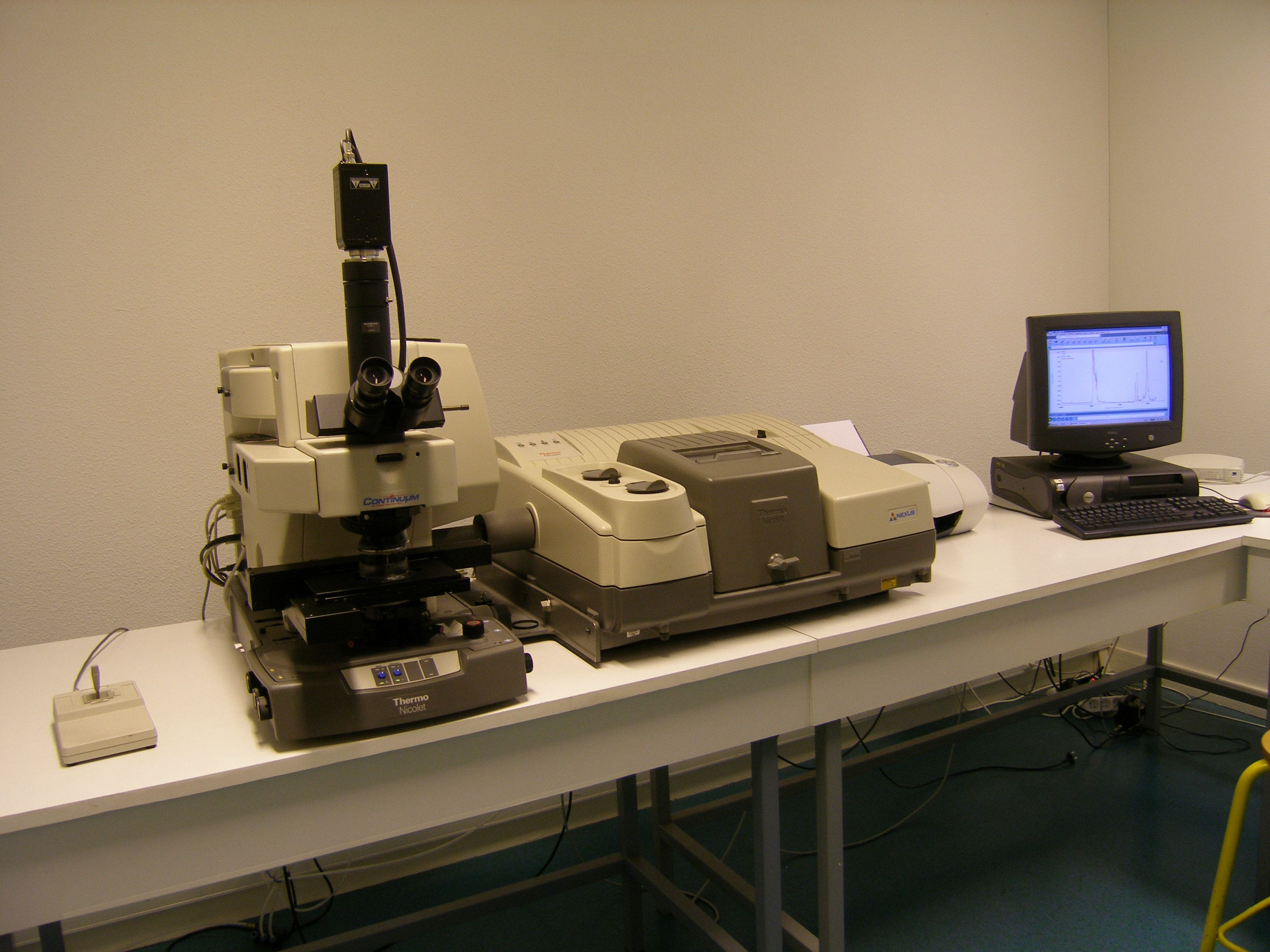 IR spectrometer equipped with microscope accessory for materials analyses